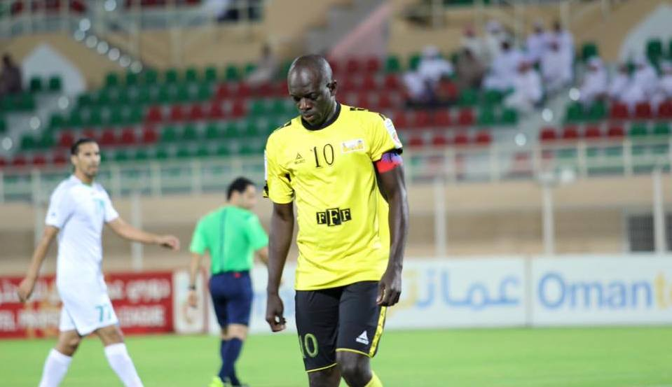 Mouhamed Ablaye Gaye in a match against Al-Nahda in 2015 21 September 2015 Al-Buraimi Stadium, Buraimi, Oman Photographer email id